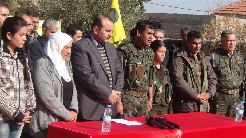 Delegates from the Turkish Peoples' Democracy Party (HDP) visiting the Kurdish city of Kobanî in Syria